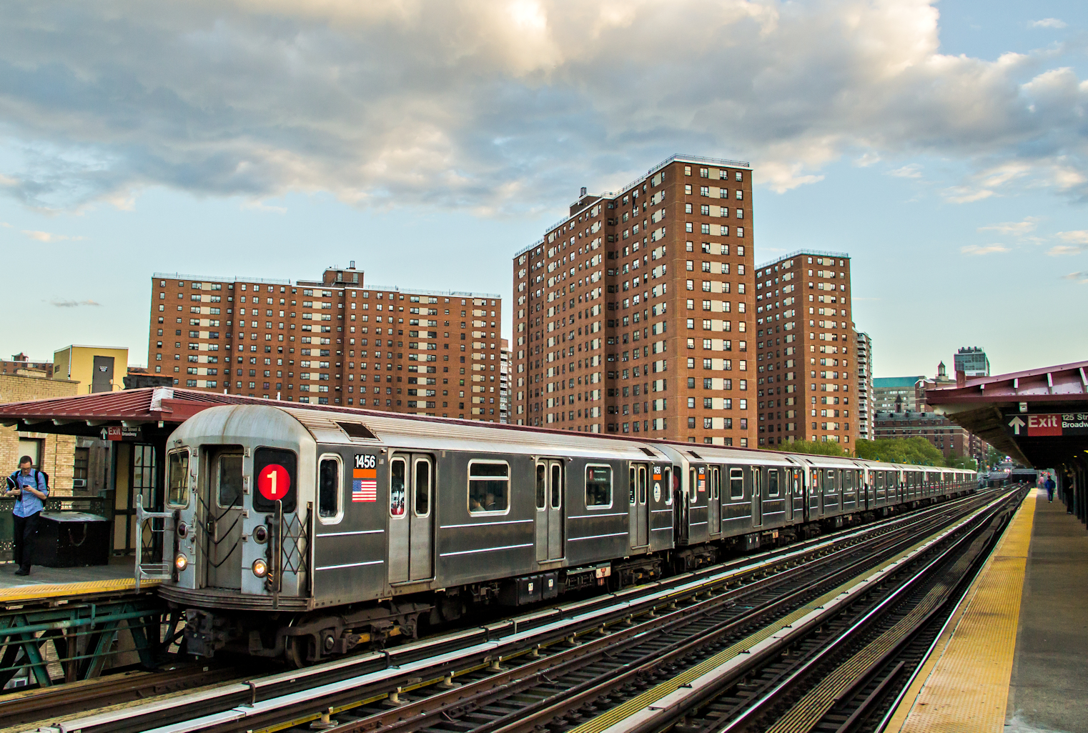 NYCT Subway - Kawasaki R-62 1 Train at the IRT 125th Street - Broadway Elevated station.